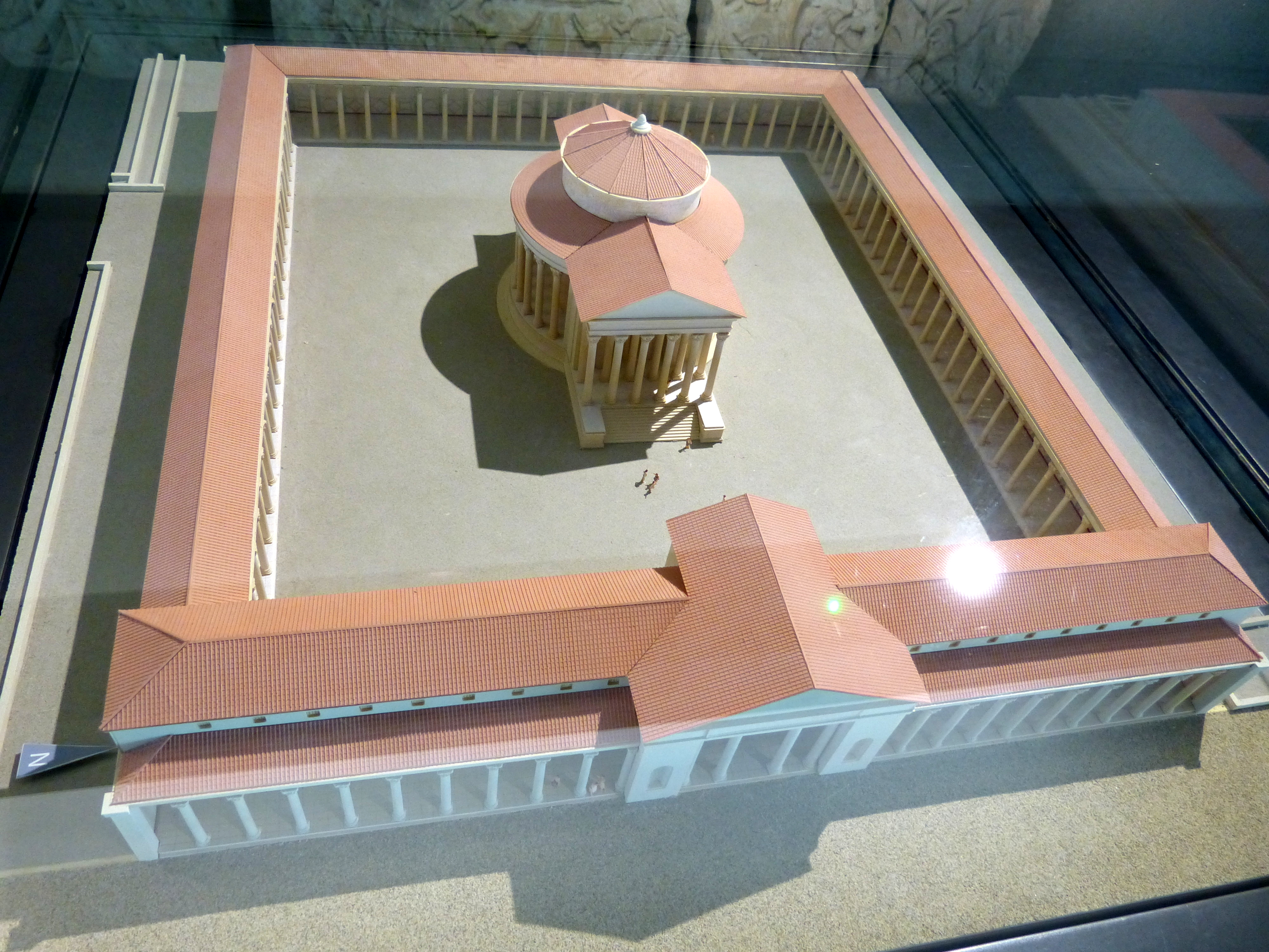 Périgueux ( Dordogne ). Vesunna-Museum: Model of the temple of the city deity Vesunna ( 2nd century AD )